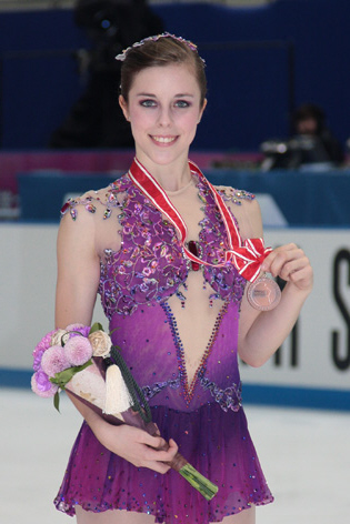 Ashley Wagner (USA) at the 2009 NHK Trophy.